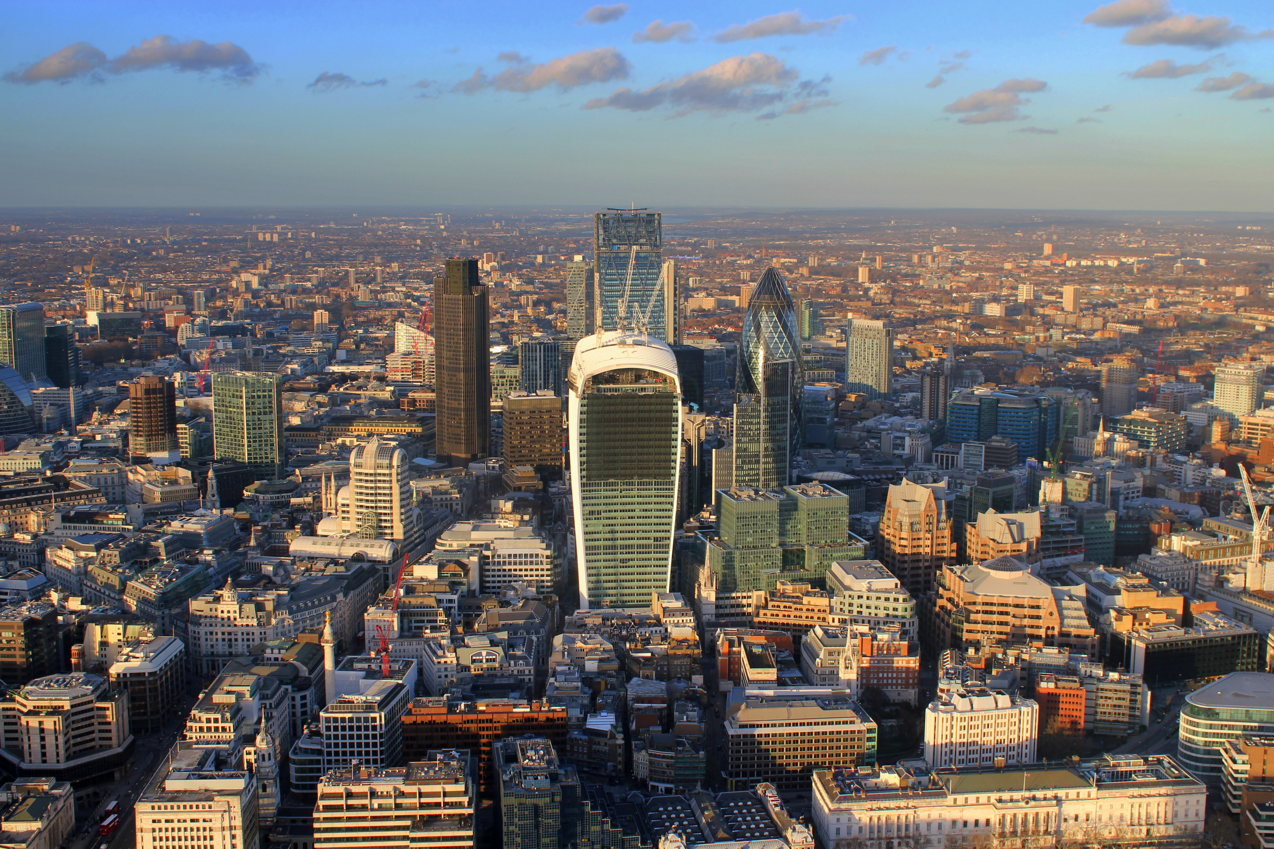 Skyscrapers in the City of London's financial district. Taken from The Shard.